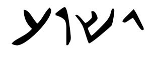 An image of the name "Yeshua" (Joshua/Jesus) in Hebrew/Aramaic, in a script contemporary to Jesus' time based off of the calligraphy found in the Dead Sea Scrolls.